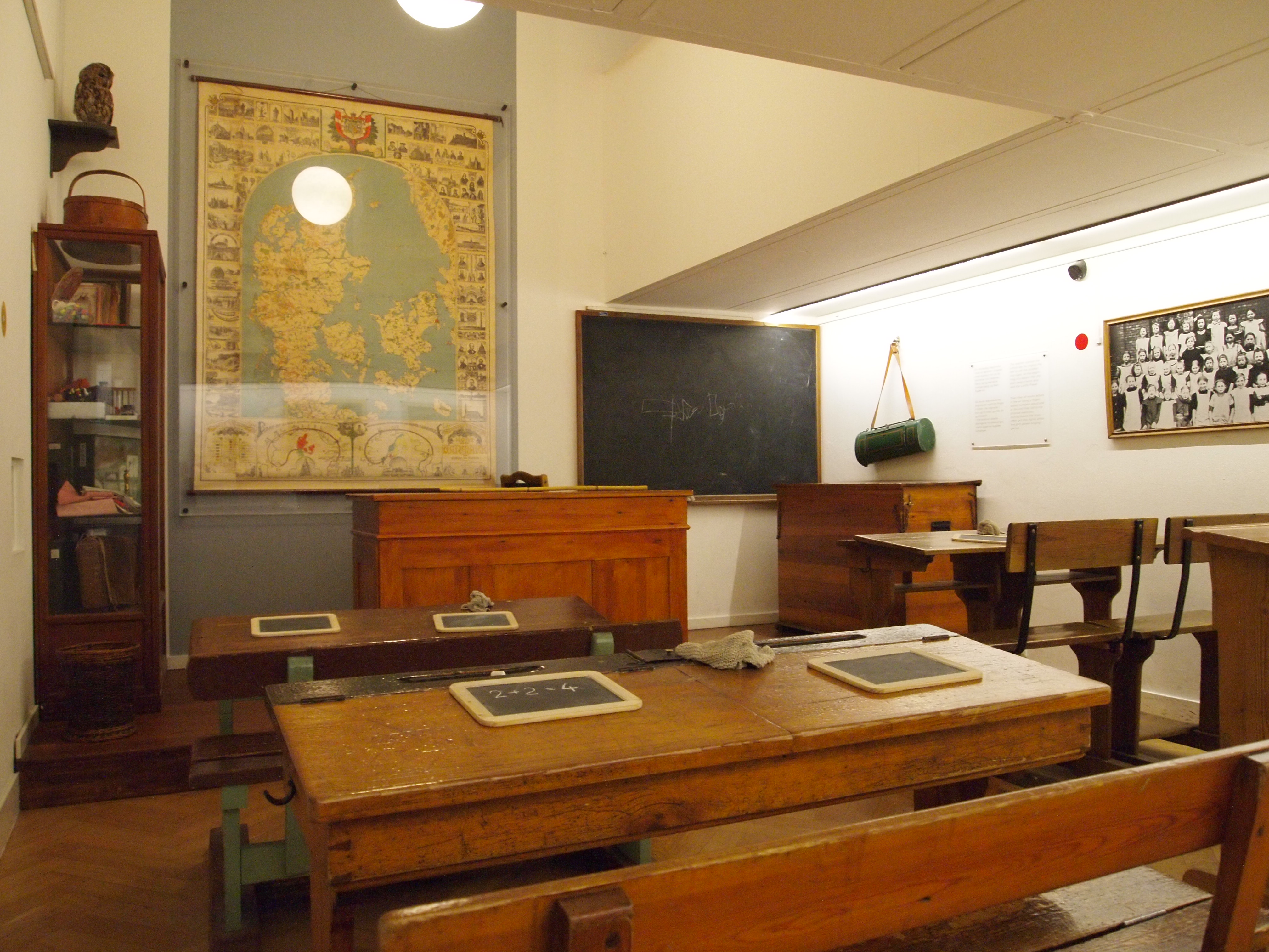 Pictures taken at the National Museet - The National Museum - Copenhagen Denmark during the Wikipedia Loves Nationalmuseet This image was provided to Wikimedia Commons by Nationalmuseet as part of an ongoing cooperative project. The artifact represented in the image is part of the collection of Nationalmuseet. English | македонски | +/− Attribution: Nationalmuseet